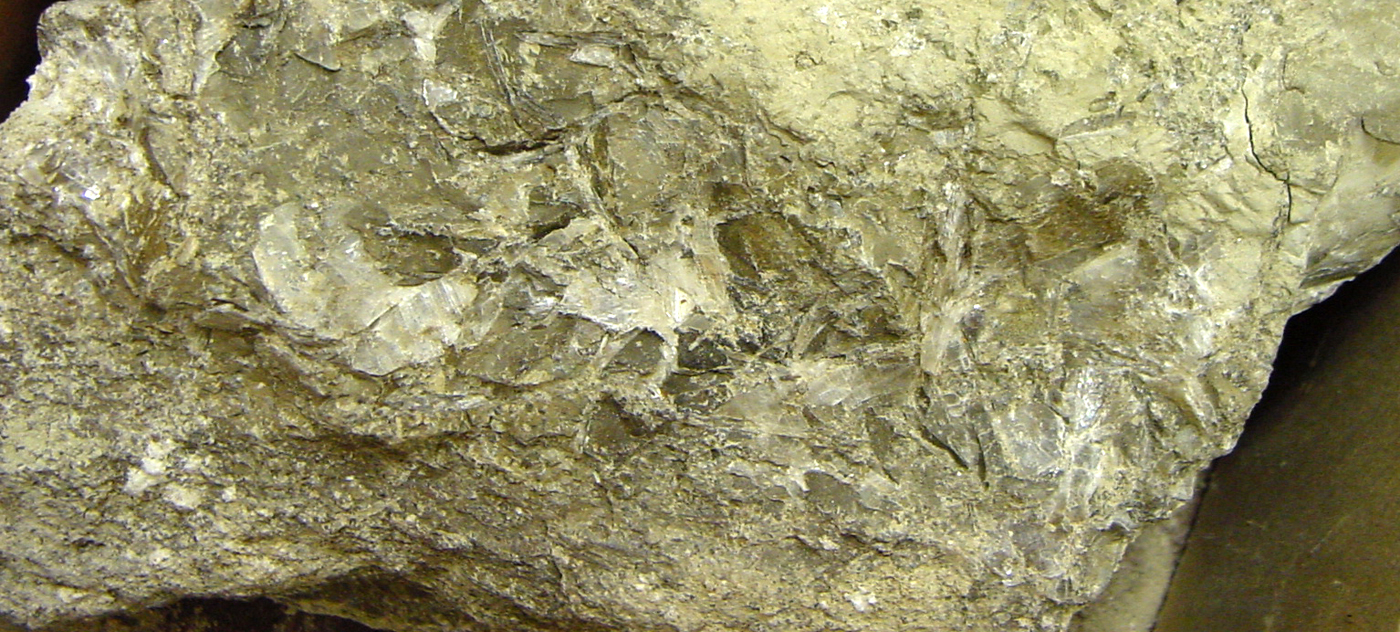 Searlesite. Collected by Jim King, August 1978, from 20 miles west of Green River, Wyoming. Mineral collection of Brigham Young University Department of Geology, Provo, Utah. Photograph by Andrew Silver. BYU index 8-2045, NaBSi_2O_6 - H_2O. Image file